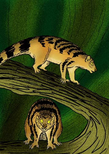 Reconstruction of the miniature marsupial lion, Microleo attenboroughi, from the Early Miocene of the Riversliegh Fauna, Queensland, Australia.